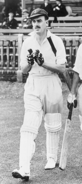 London, England. 1945-07-16. R. S. Whitington, RAAF, takes the field to open Australia's innings during the third Test Match between England and Australia at Lords cricket ground.